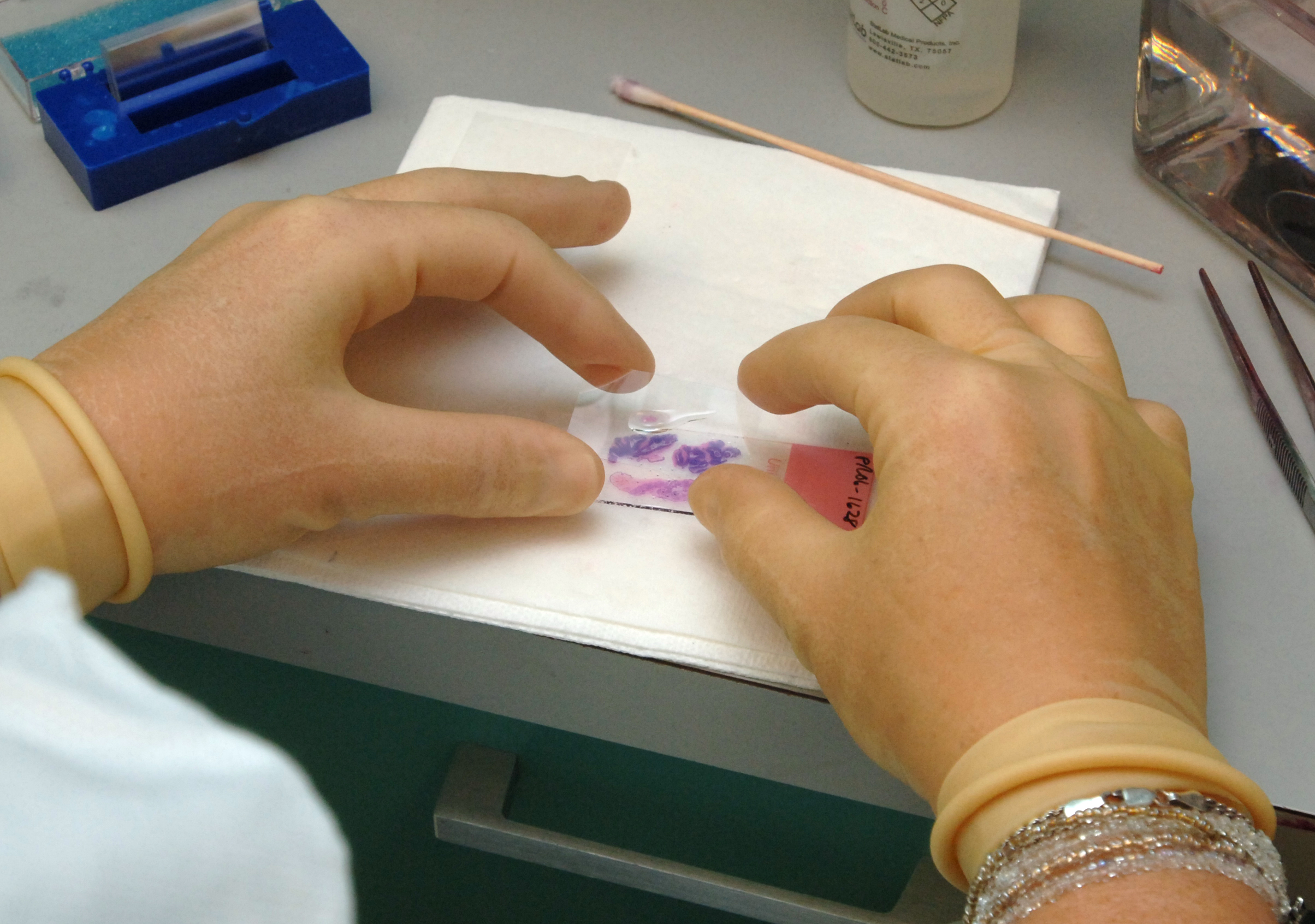 The stained section on the slide is mounted under a thin glass coverslip. The technician takes care to keep any bubbles from being trapped in the resinous mounting medium. Tissue with a bubble over it cannot be interpreted.